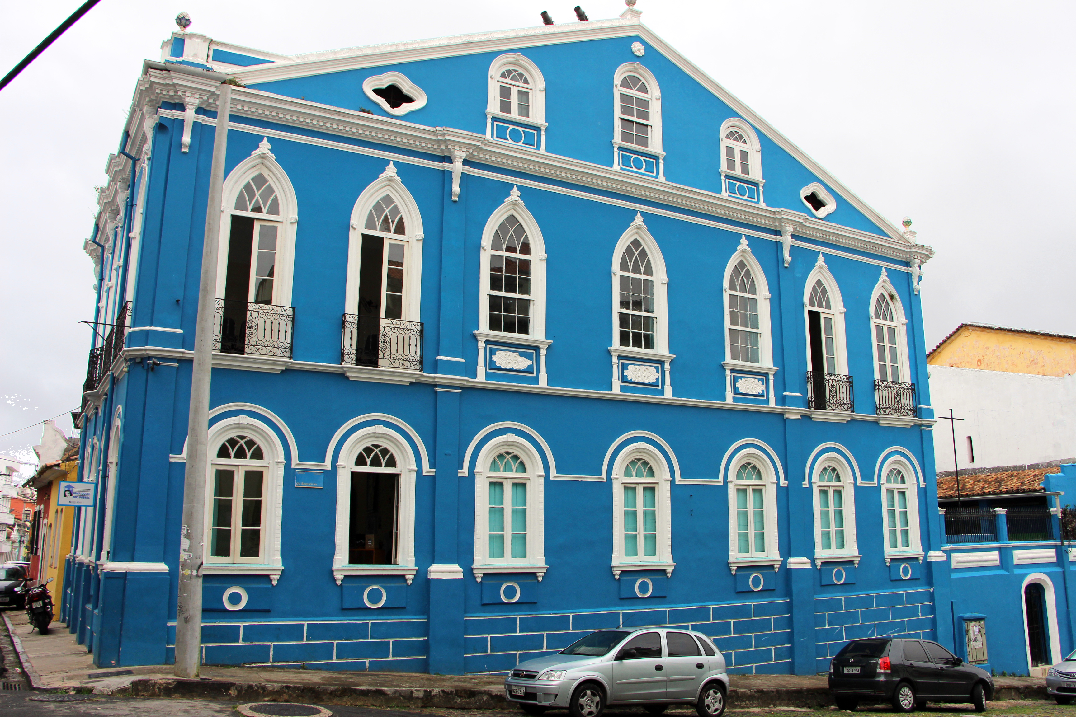 Streets and avenues in Salvador, Bahia